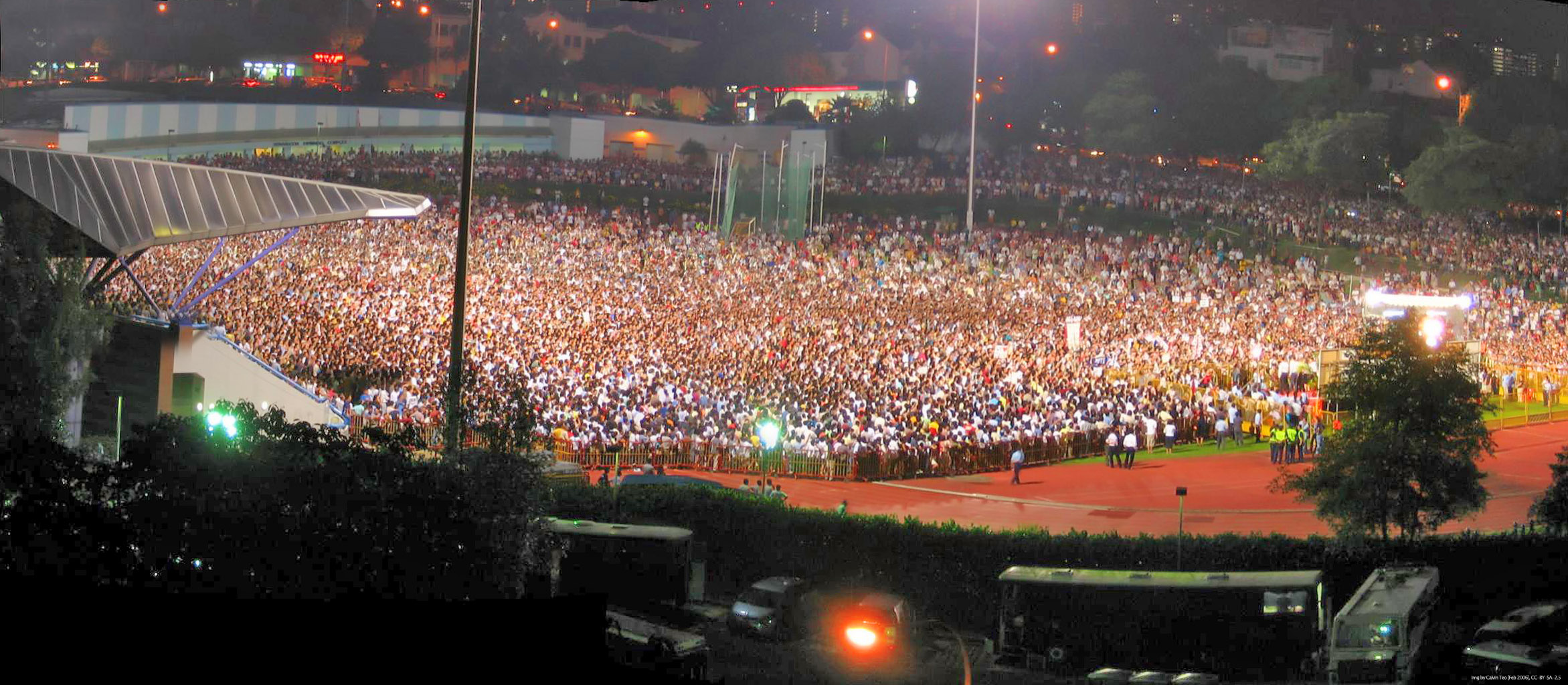 Campaigning for votes - Worker's Party Rally for Aljunied GRC Thousands of supporters turn out at the last Workers' Party rally for Aljunied GRC, hoping to get more votes in the next day's elections. Serangoon Stadium, Serangoon, Republic of Singapore Img by Calvin Teo, Friday May 5 2006 (05/05/2006)